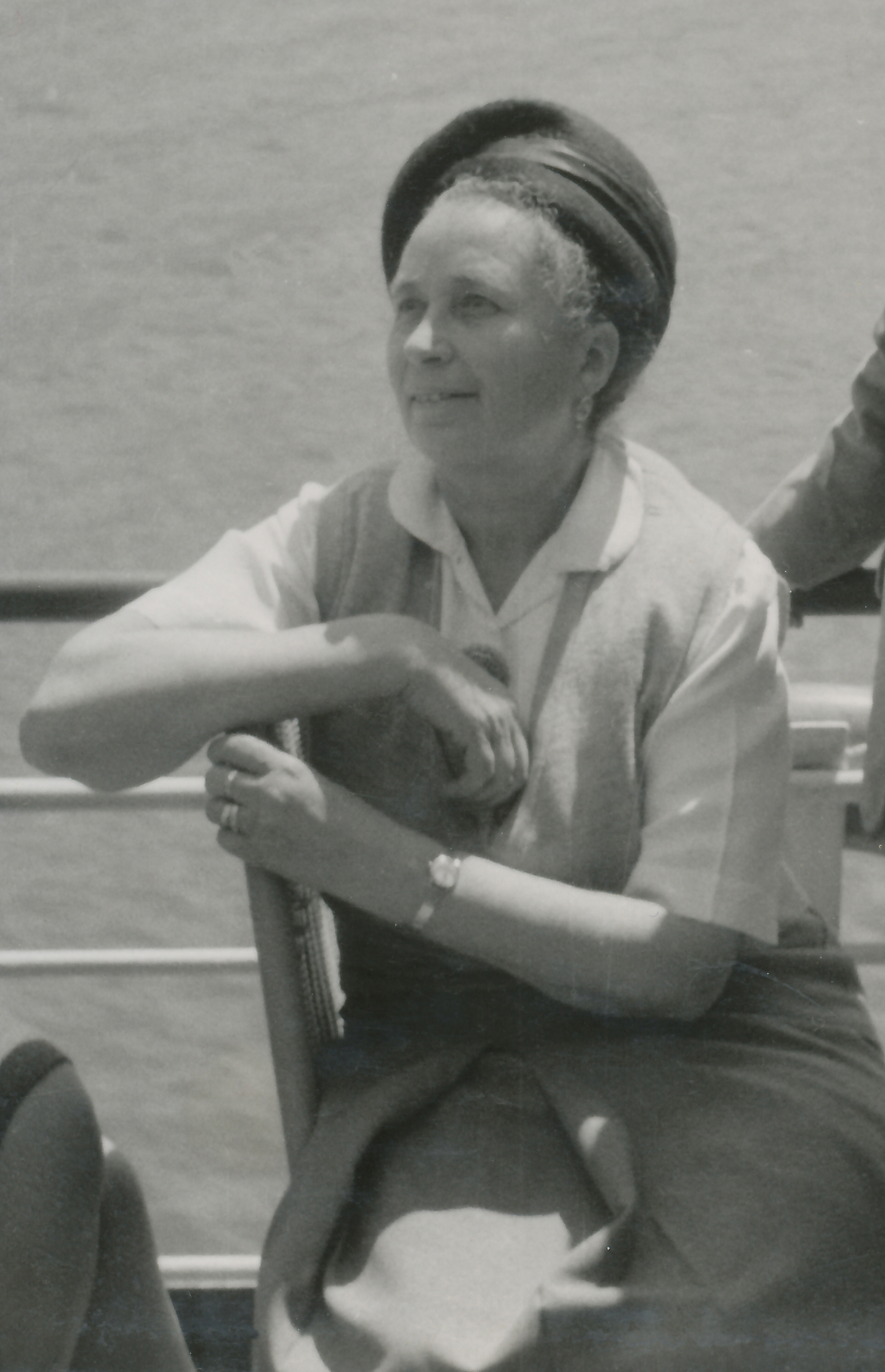 Tresl Gruber, artist from Val Gardena